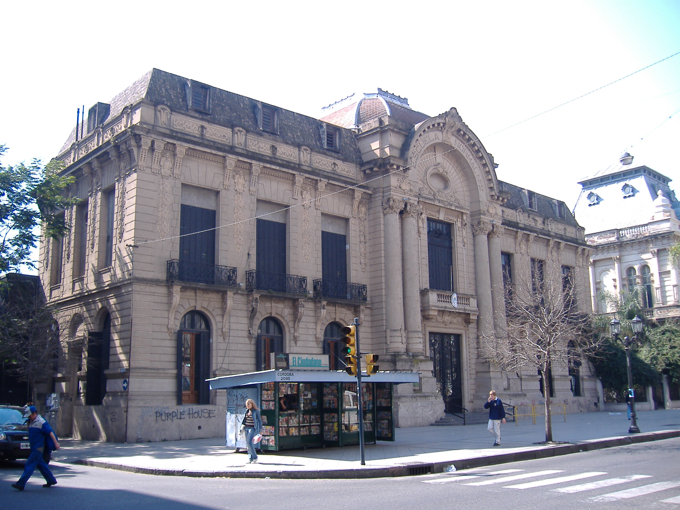 Normal School No. 2 (Escuela Normal Nº 2) in Rosario, Argentina (corner of Córdoba and Balcarce St., Paseo del Siglo), now a National Historic Monument.